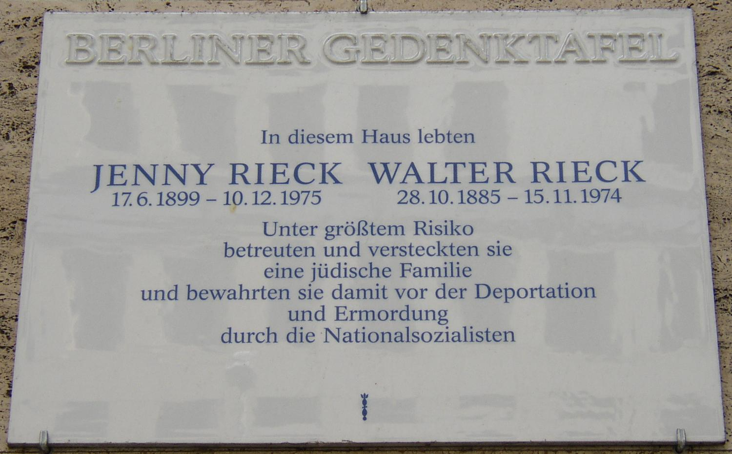 Berlin memorial plaque for Jenny and Walter Rieck in Berlin-Charlottenburg, Germany